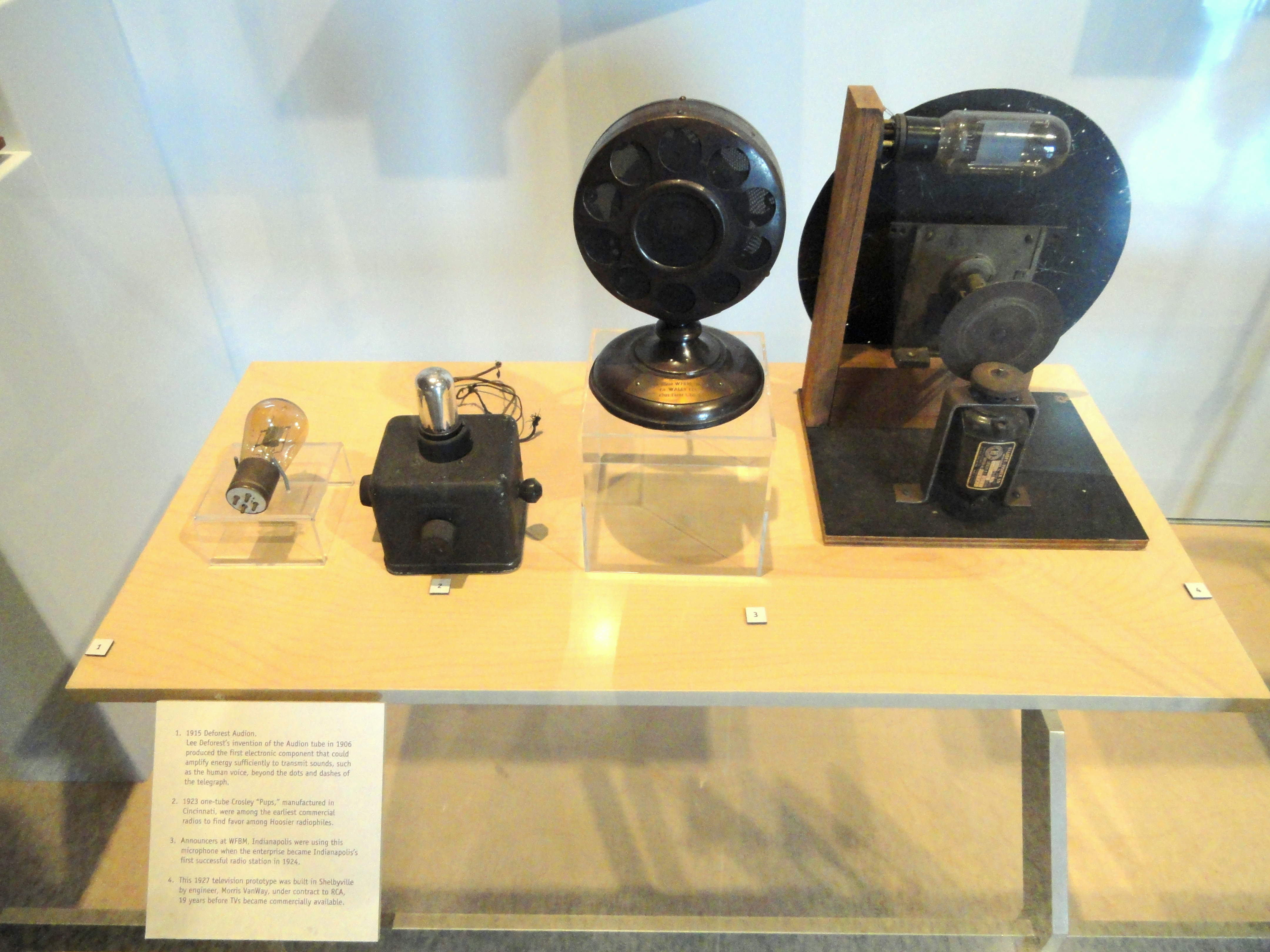 Early radio and television equipment, Indiana State Museum, 650 West Washington Street, Indianapolis, Indiana, USA. Left to right: 1915 De Forest Audion vacuum tube was the first device which could amplify electrical signals, creating the field of electronics. 1923 Crosley "Pup" radio; this single tube receiver was manufactured in Cincinatti. AT&T double button broadcasting microphone used in Indianapolis' first successful radio station, WFBM, established 1924. 1927 experimental television receiver prototype built by Morris VanWay for RCA used a spinning disk with holes in front of a neon light to create an image. Before modern electronic scan television was developed around WW2, many radio stations broadcast experimental mechanical scan television programs.